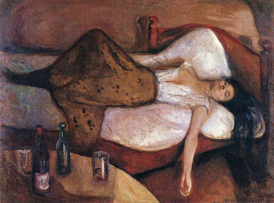 The Day After